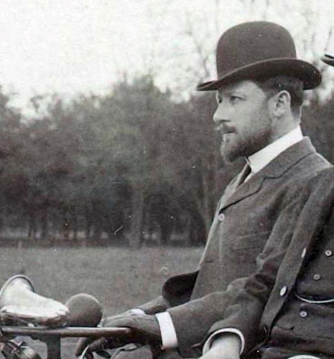 [Collection Jules Beau. Photographie sportive] : T. 13. AnnÃ©e 1900 / Jules Beau : F. 6. [Incendie du ThÃ©Ã¢tre-FranÃ§ais, 8 mars 1900] ; Serpollet